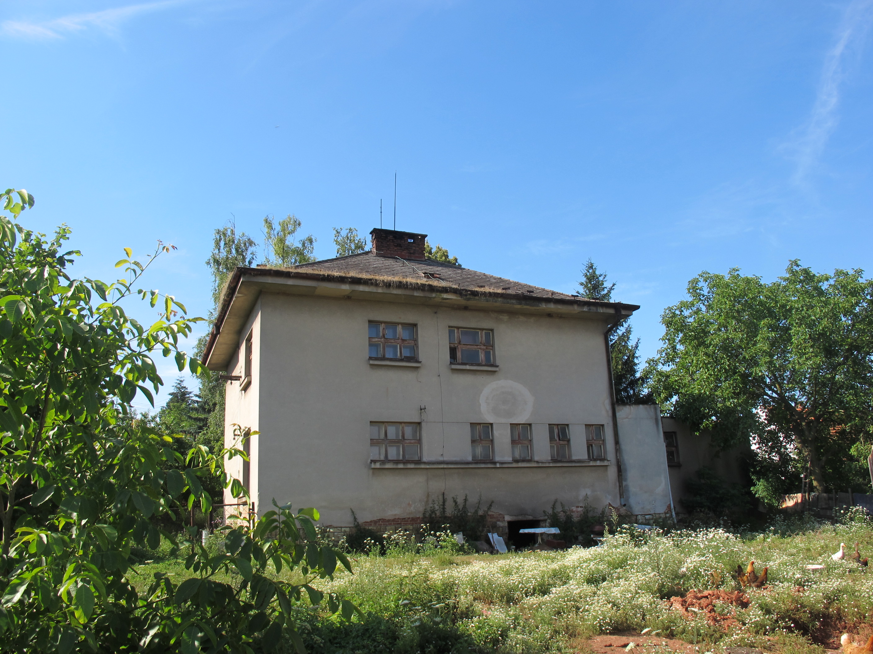 Former czech school from 1935 in Nečemice